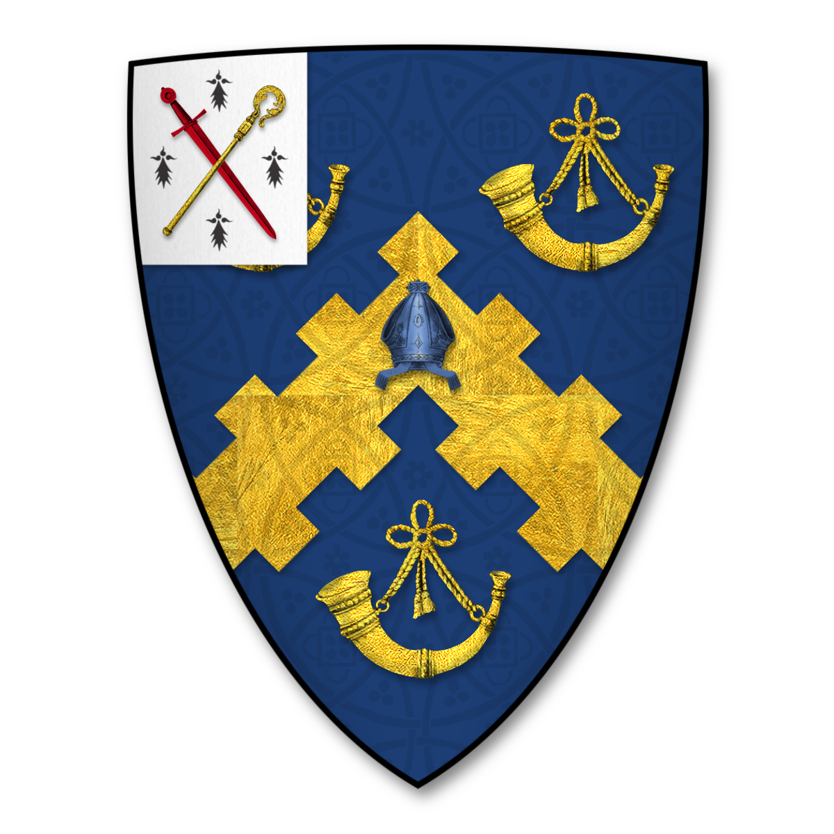 Armorial Bearings of the PEPLOE family of Garnstone, Weobley, Herefordshire; as borne by Daniel Peploe, Esq., High Sheriff in 1846, 5th in descent from Dr. Peploe, Bishop of Chester in 1726. Arms: Azure on a chevron embattled counter-embattled, between three bugle horns stringed or, a mitre, with labels of the field; on a canton ermine, a crosier or and a sword gules, in saltire. Crest: On a ducal coronet or, a reindeer's head gules, attired or, charged on the neck with a human eye, shedding tears proper. Strong, George (1848) The Heraldry of Herefordshire: Being a Collection of the Armorial Bearings of Families Which Have Been Seated in the County at Various Periods Down to the Present Time., London: Churton Press